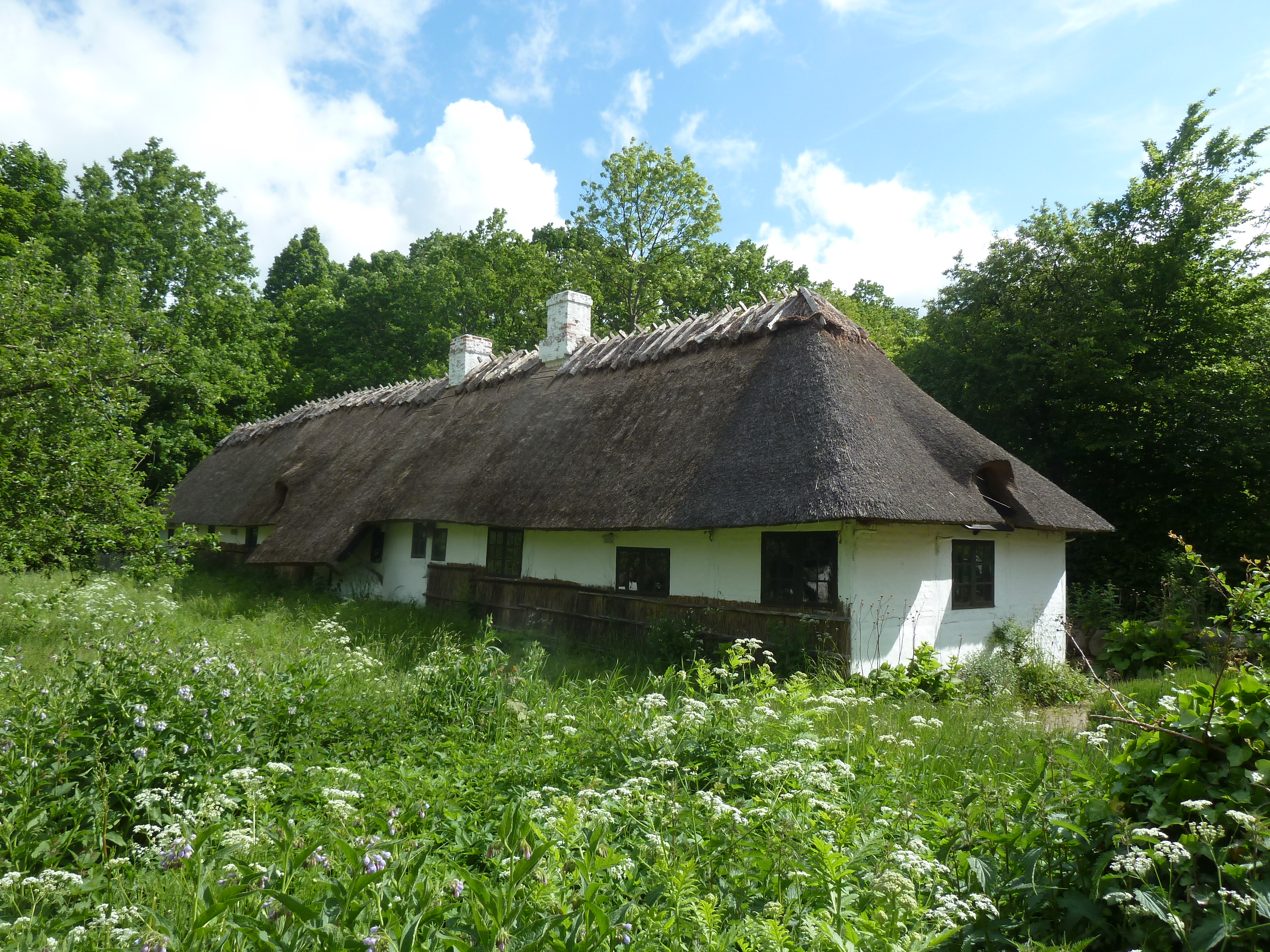 Craftsmans house from Kalvehave, Sjælland, now on Frilandsmuseet (the open air museum) north of Copenhagen.